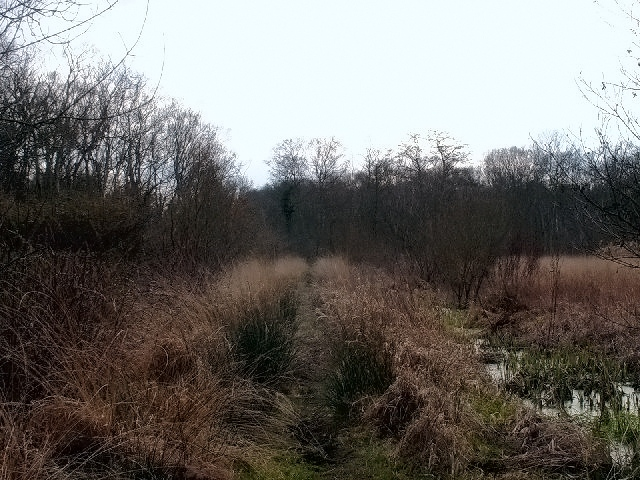 The Sweet Track, Somerset Levels. "The Sweet Track is an example of Neolithic engineering, 6000 years old. An elevated footpath that ran for almost 2km across the Somerset levels."